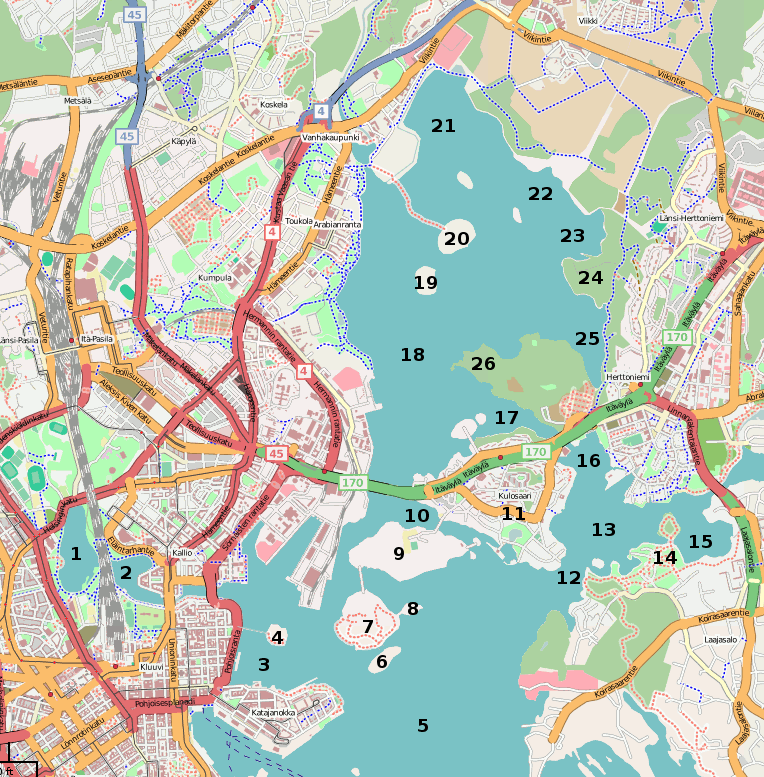 Map of water in central and eastern Helsinki with numbers showing different islands and lakes.